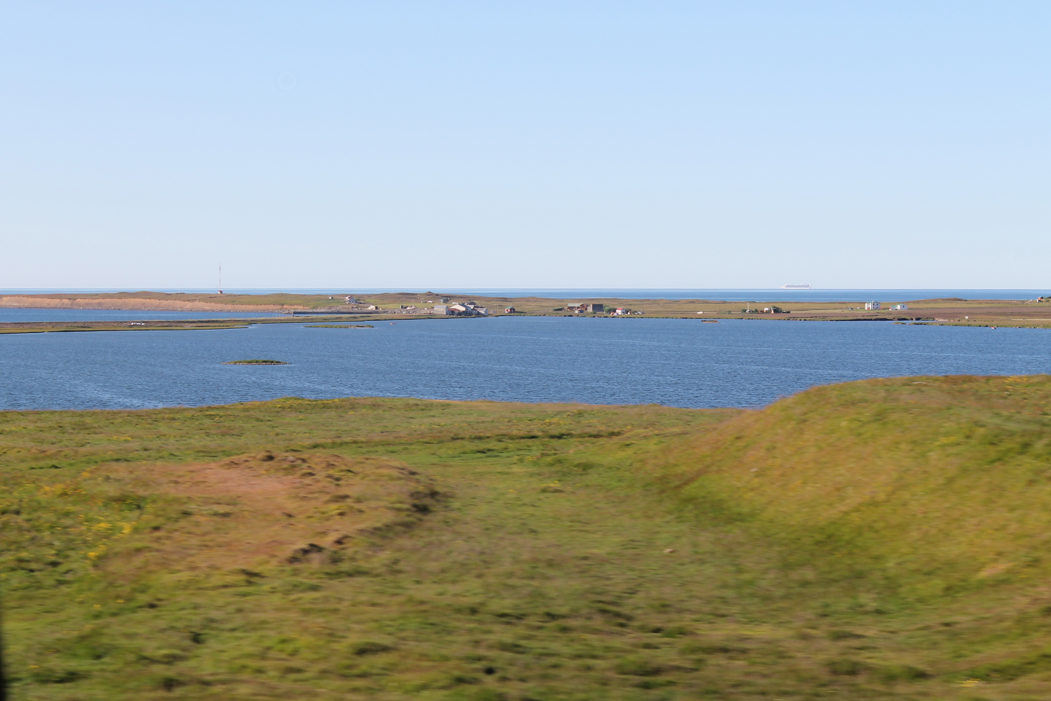 Haganesvík, a tiny village in Fljót, Skagafjörður, Northern Iceland.